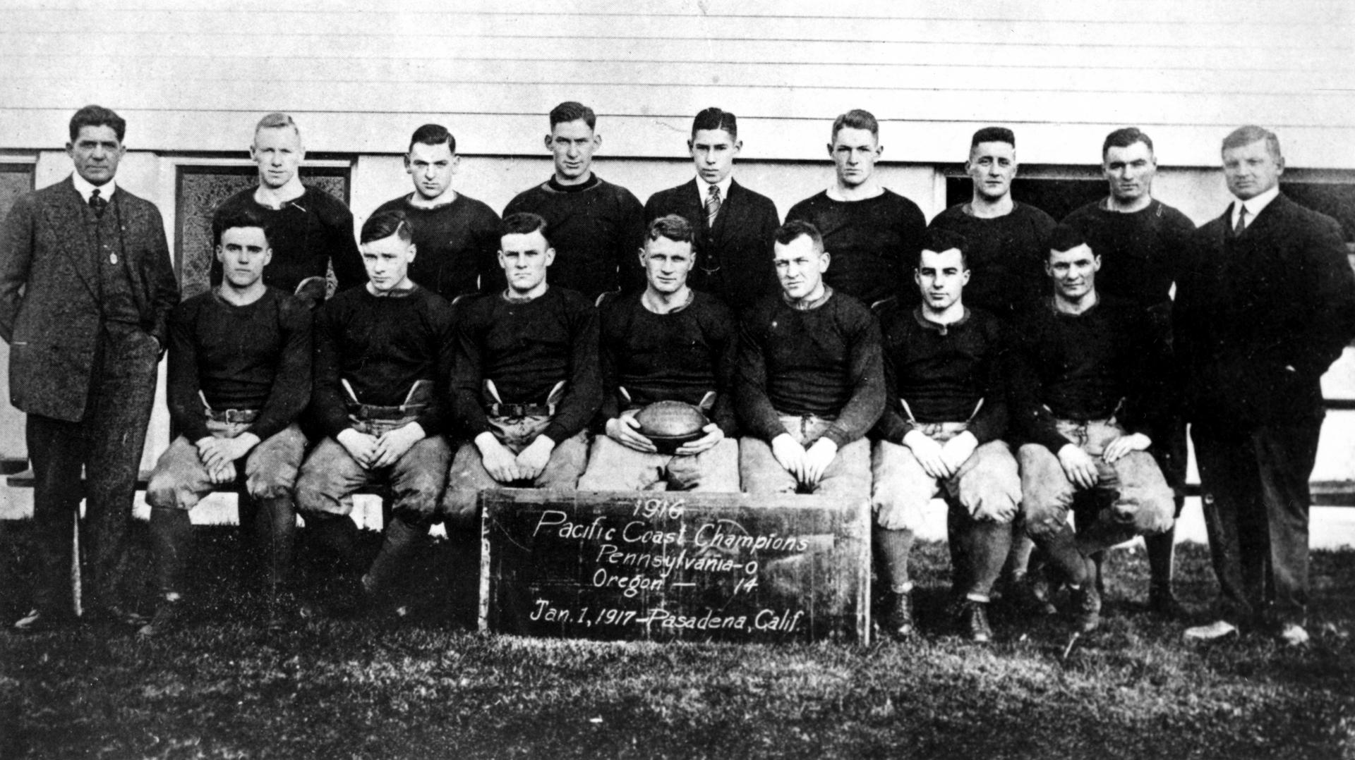 University of Oregon football team, with head coach Hugo Bezdek on the right. This team was the Pacific Coast Conference champions and defeated the University of Pennsylvania in the Rose Bowl on January 1, 1917.